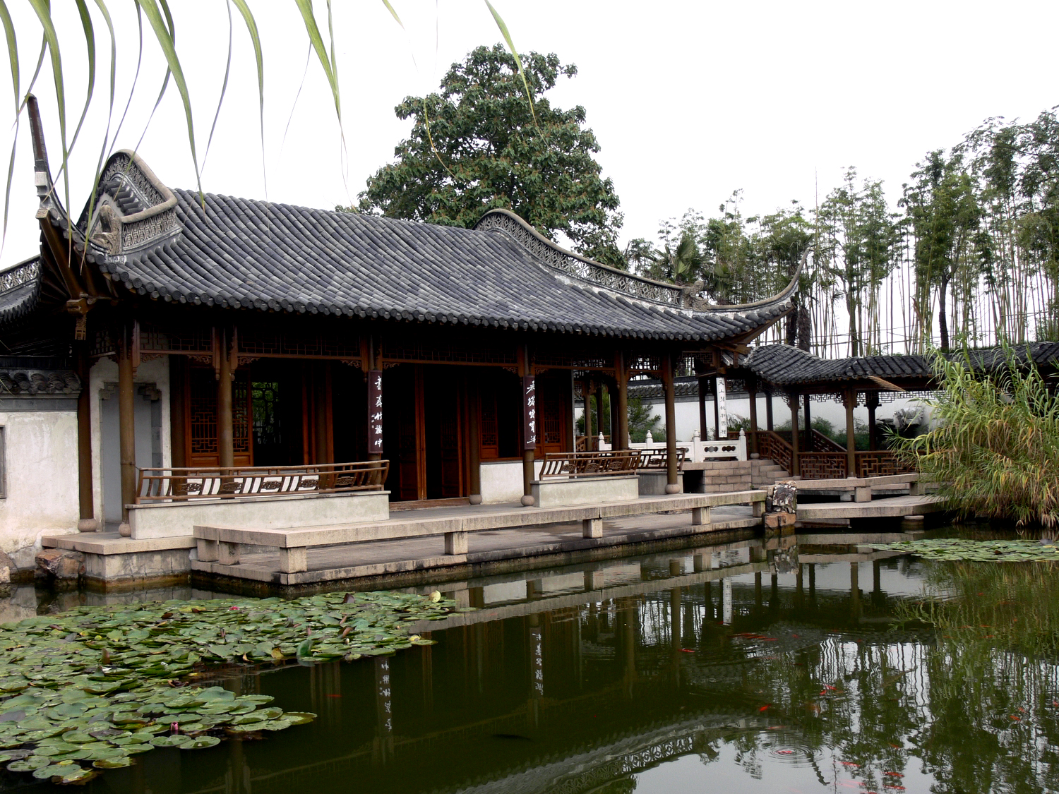 Serene and Fragrant Study in the Thin West Lake.静香书斋